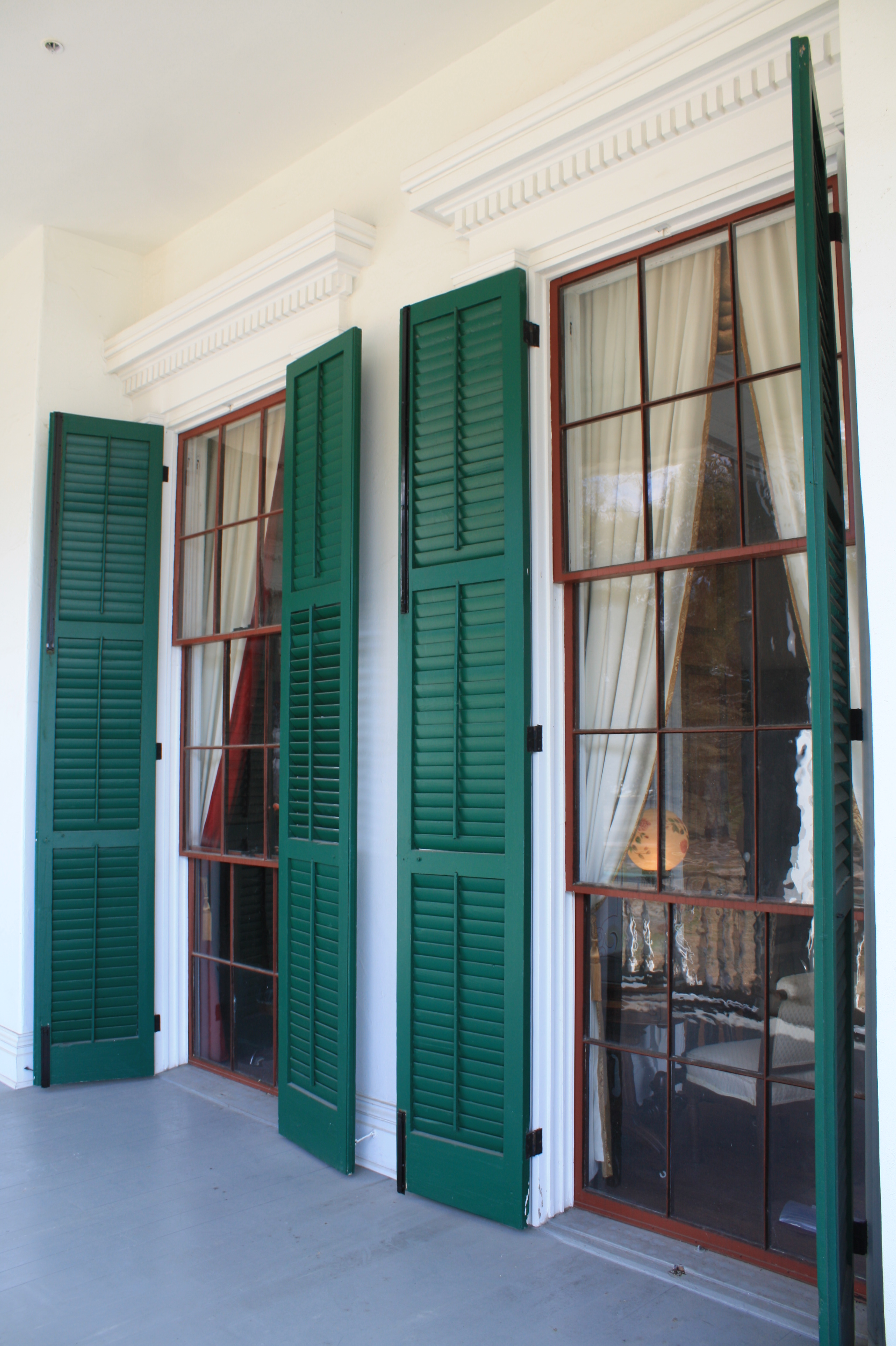 Exterior of parlor windows. —Beauvoir in Biloxi, Mississippi. Post-restoration, following massive damage from Hurricane Katrina.